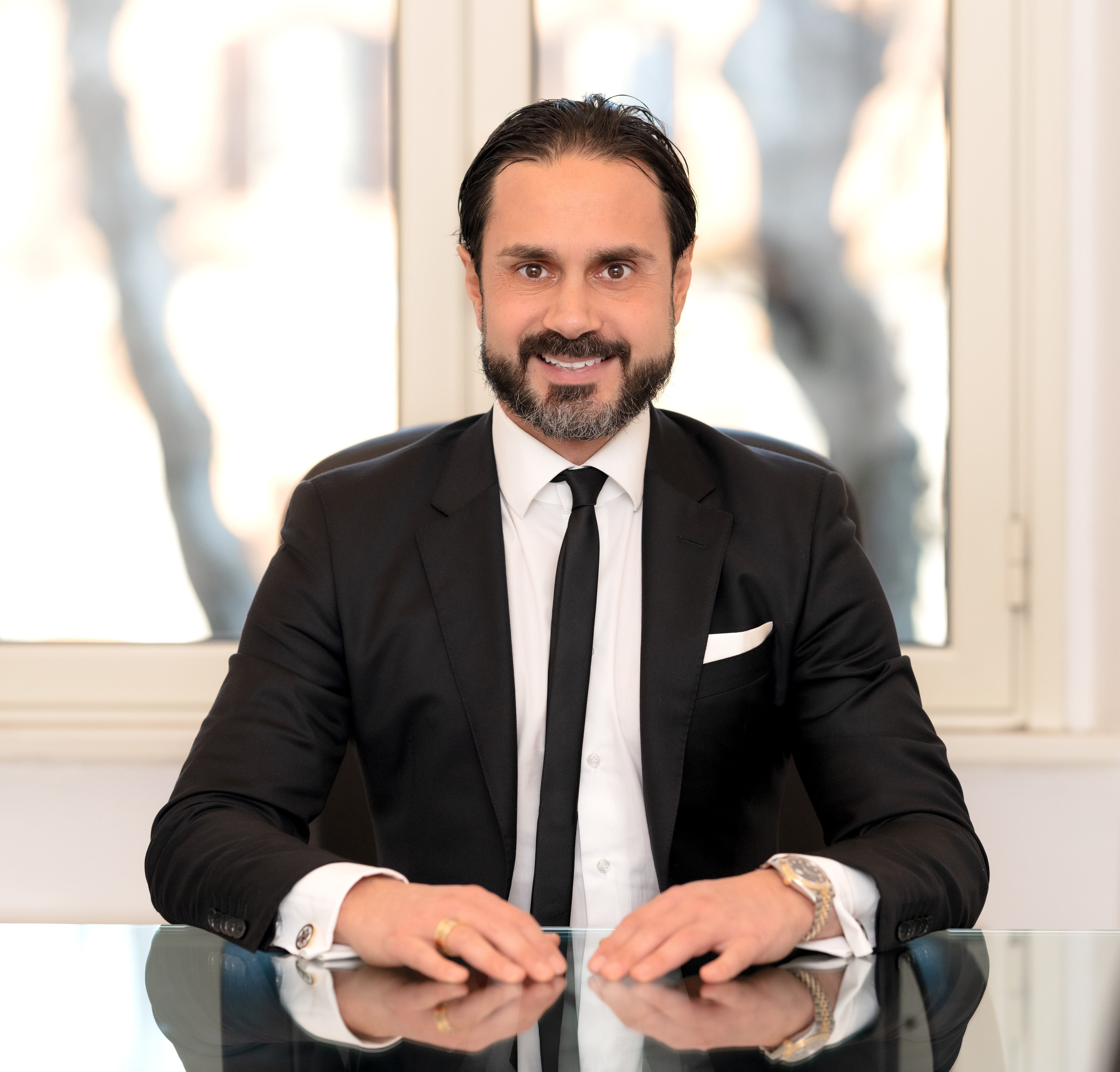 Paolo Zagami Avvocato